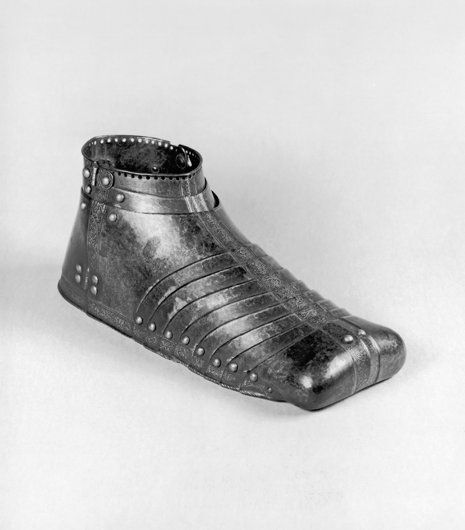 Sabatons provide protection for the top of the foot. They usually consist of horizontal lames (plates), ending in a toecap, articulated with rivets and straps so as to bend with the movement of the foot. The effect is similar to the protective plates on an armadillo.